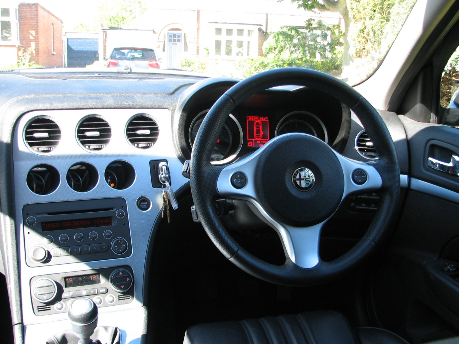 "Exotic" interior and dashboard... not to everyone's taste...